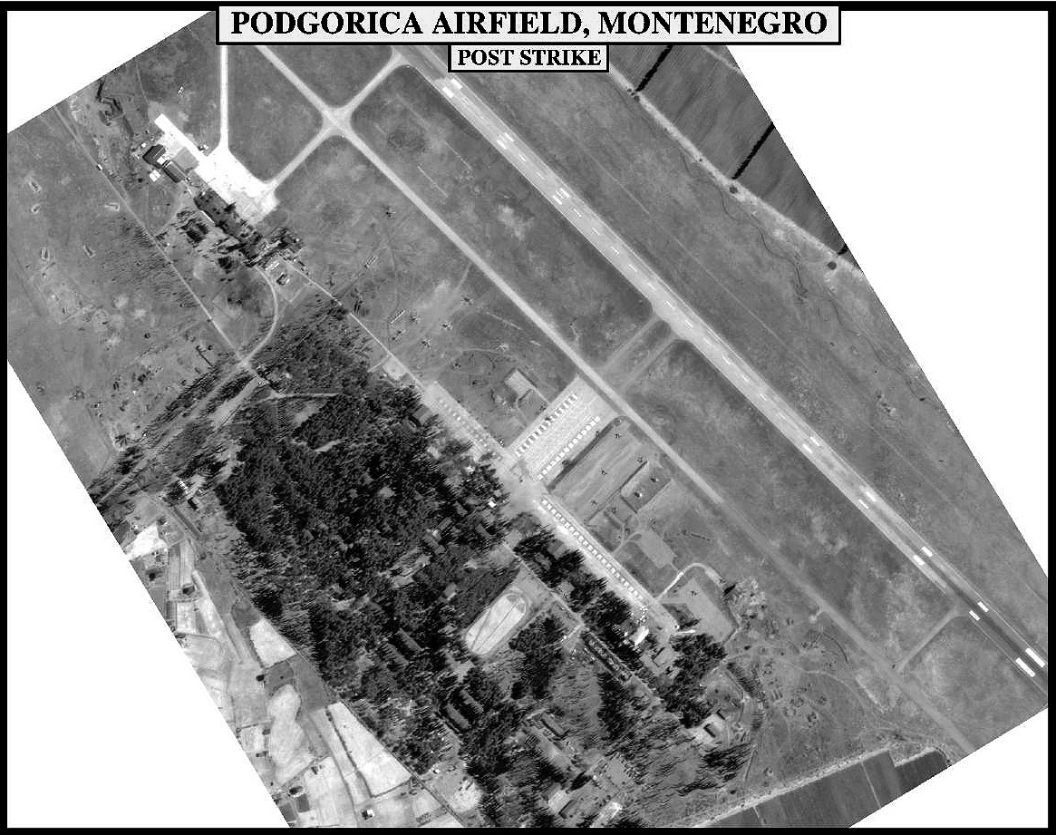 Post-strike bomb damage assessment photograph of the Podgorica Airfield, Montenegro, used by Joint Staff Vice Director for Strategic Plans and Policy Maj. Gen. Charles F. Wald, U.S. Air Force, during a press briefing on NATO Operation Allied Force in the Pentagon on April 22, 1999.